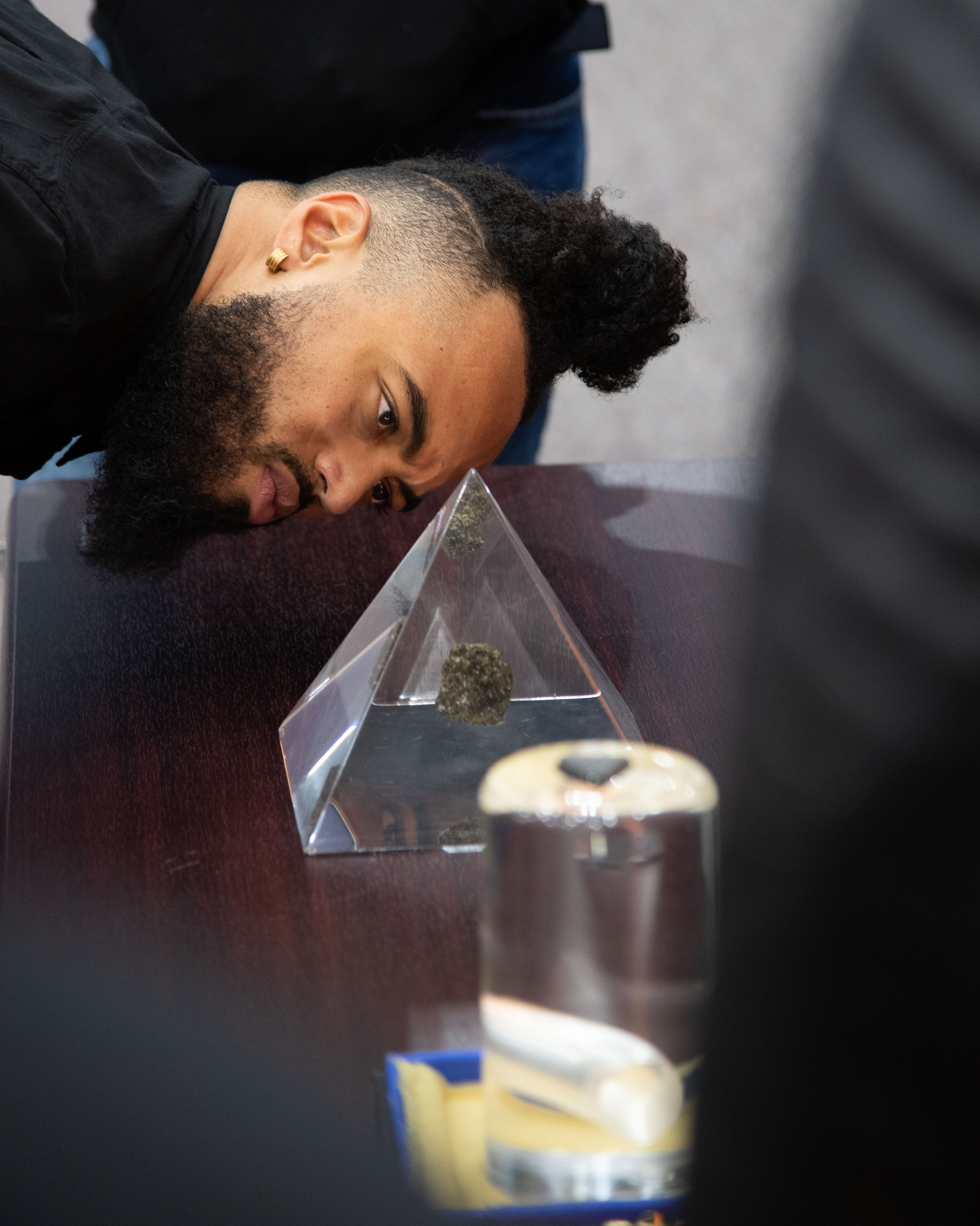 In collaboration with NASA’s Goddard Space Flight Center, NASA’s Johnson Space Center in Houston, Texas hosted the second NASA Commercialization Training Camp on Feb. 12-14 in partnership with the NFL Players Association. Through presentations, tours, panels and one-on-one conversations, the training camp introduced current and former professional football players to NASA technology, explaining how athletes could infuse NASA innovations into an existing business or new startup idea. Credit: NASA/Johnson Space Center/Bill Stafford